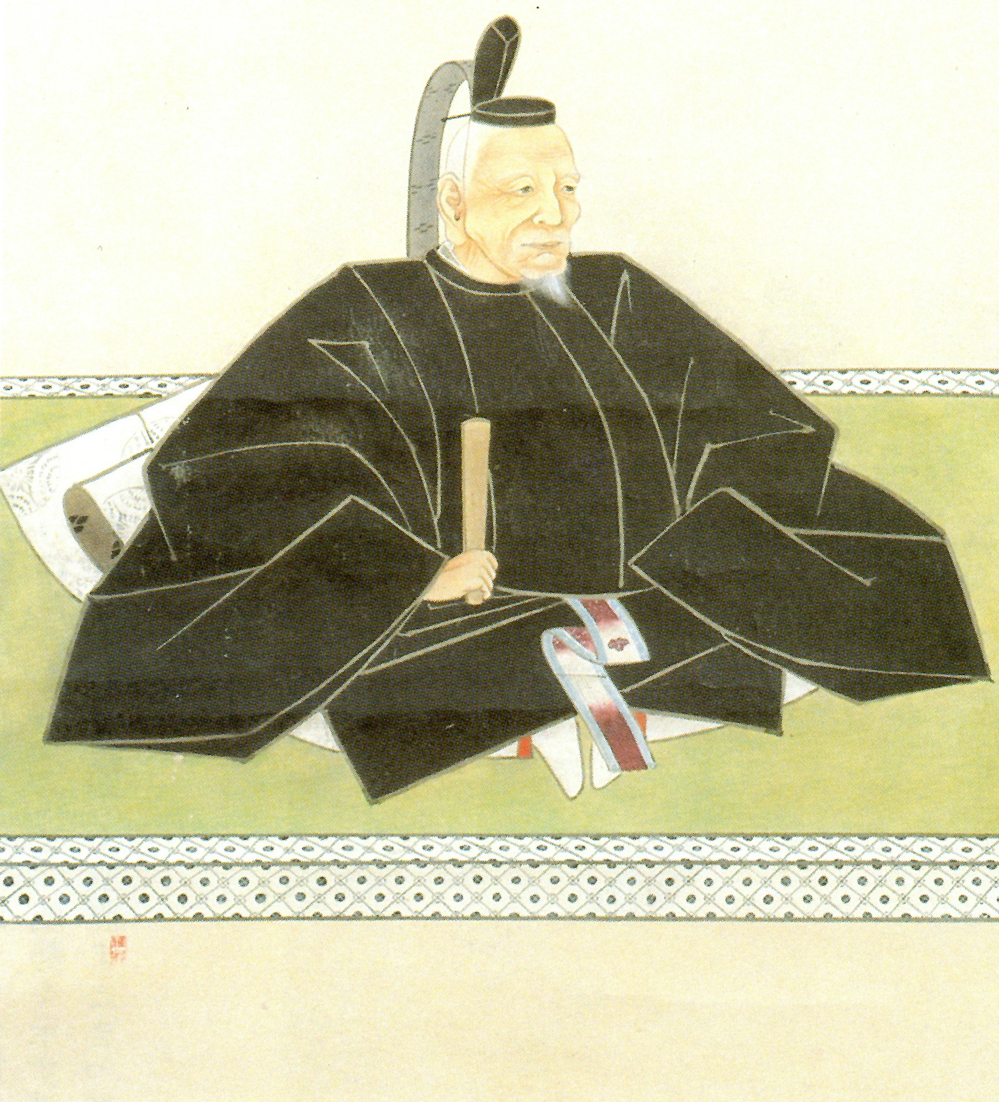 Portrait of Matsudaira Yasushige.